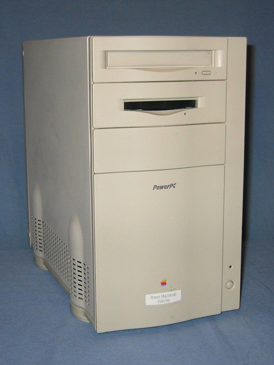 Front view of the Power Macintosh 8500/180